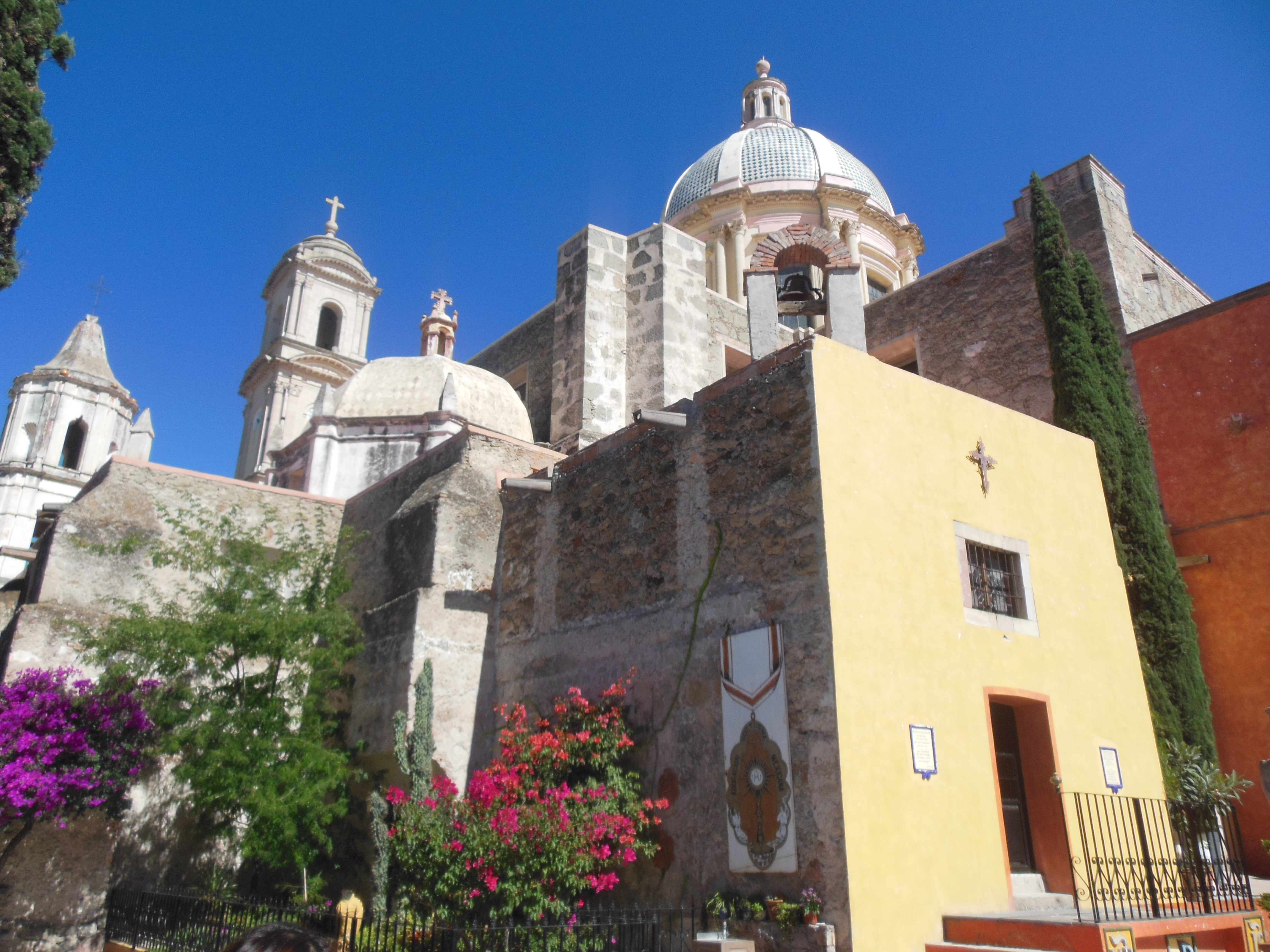 Sanctuary of Soriano